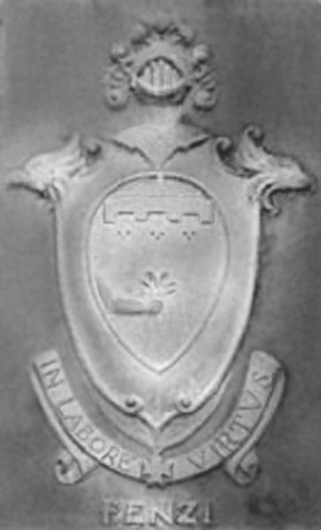 Enlarged from an old and small print of the Fenzi family crest that hangs on the facade of the Fenzi palace Template:Fenzi Family Trust Enlarged from an old and small print of the Fenzi family crest that hangs on the facade of the Fenzi palace Template:Fenzi Family Trust